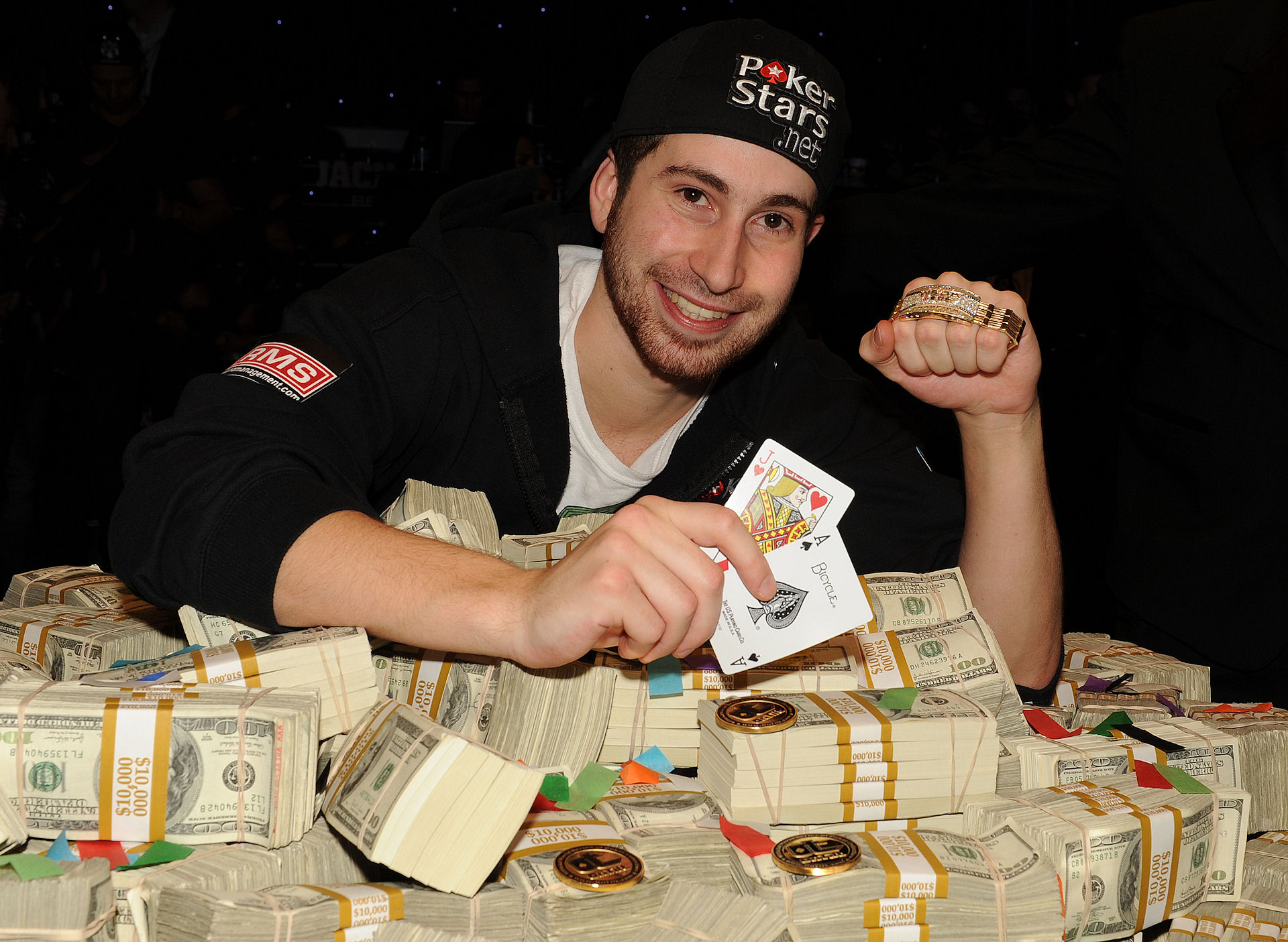 Jonathan Duhamel, 2010 WSOP World Poker Champion